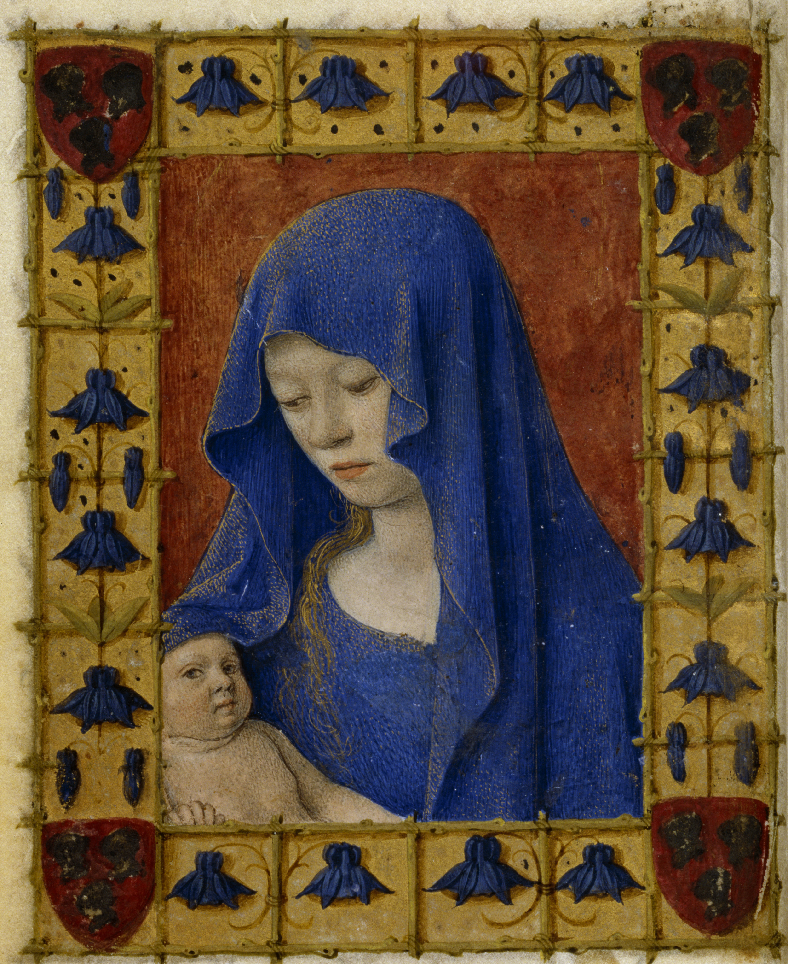 Mary holding the Christ-child - miniature from folio 001v from the Book of Hours of Simon de Varie - KB 74 G37a Topics depicted in this miniature Mary standing (or half-length), the christ-child sitting on her arm (christ-child to mary's left) (11F4122) This miniature is part of folio 001v